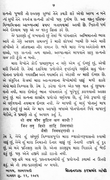 This is a scanned excerpt of one page (about 500 words) from the introduction section of the Autobiography of Mahatma Gandhi (in Gujarati script). The image is uploaded here to show the typography of Gujarati script.